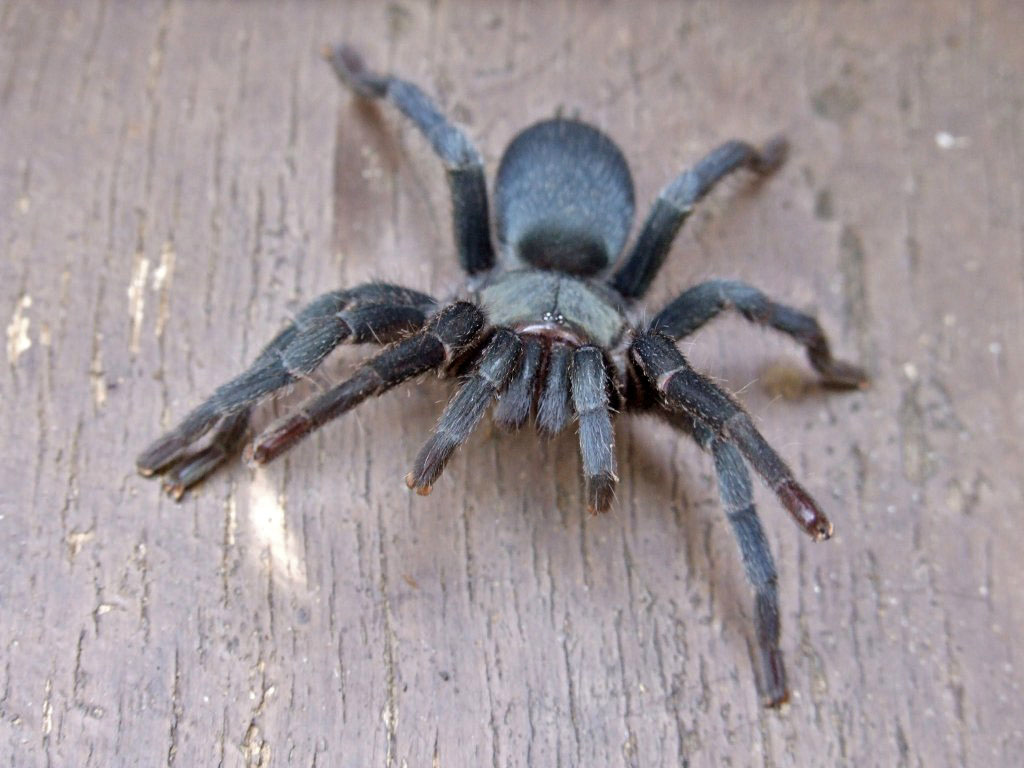 Chaetopelma olivaceum